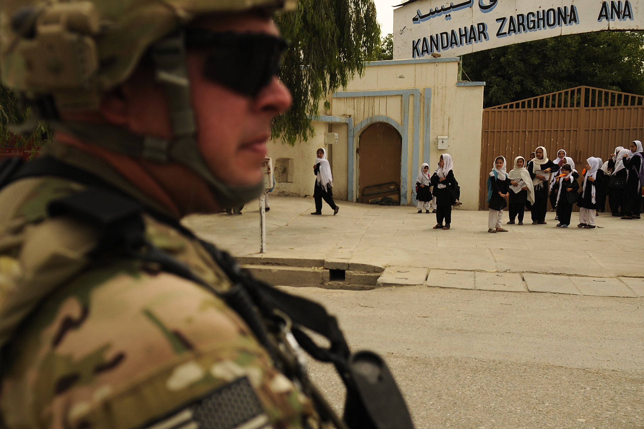 School children watch members of Afghan National Security Force and Kandahar Provincial Reconstruction Team prepare for the Kandahar Nursing and Midwifery Institute grand opening ceremony May 9, 2012 in Kandahar, Afghanistan. The Kandahar Nursing and Midwifery will be able to train up to 800 students, both male and female, a year in nursing, midwifery, pharmacy, lab and dental services. Kandahar PRT is a joint team of U.S. Air Force, Army, Navy service members and civilians deployed to the Kandahar province of Afghanistan to assist in the effort to rebuild and stabilize the local government and infrastructure. (Photo ID: 577792)